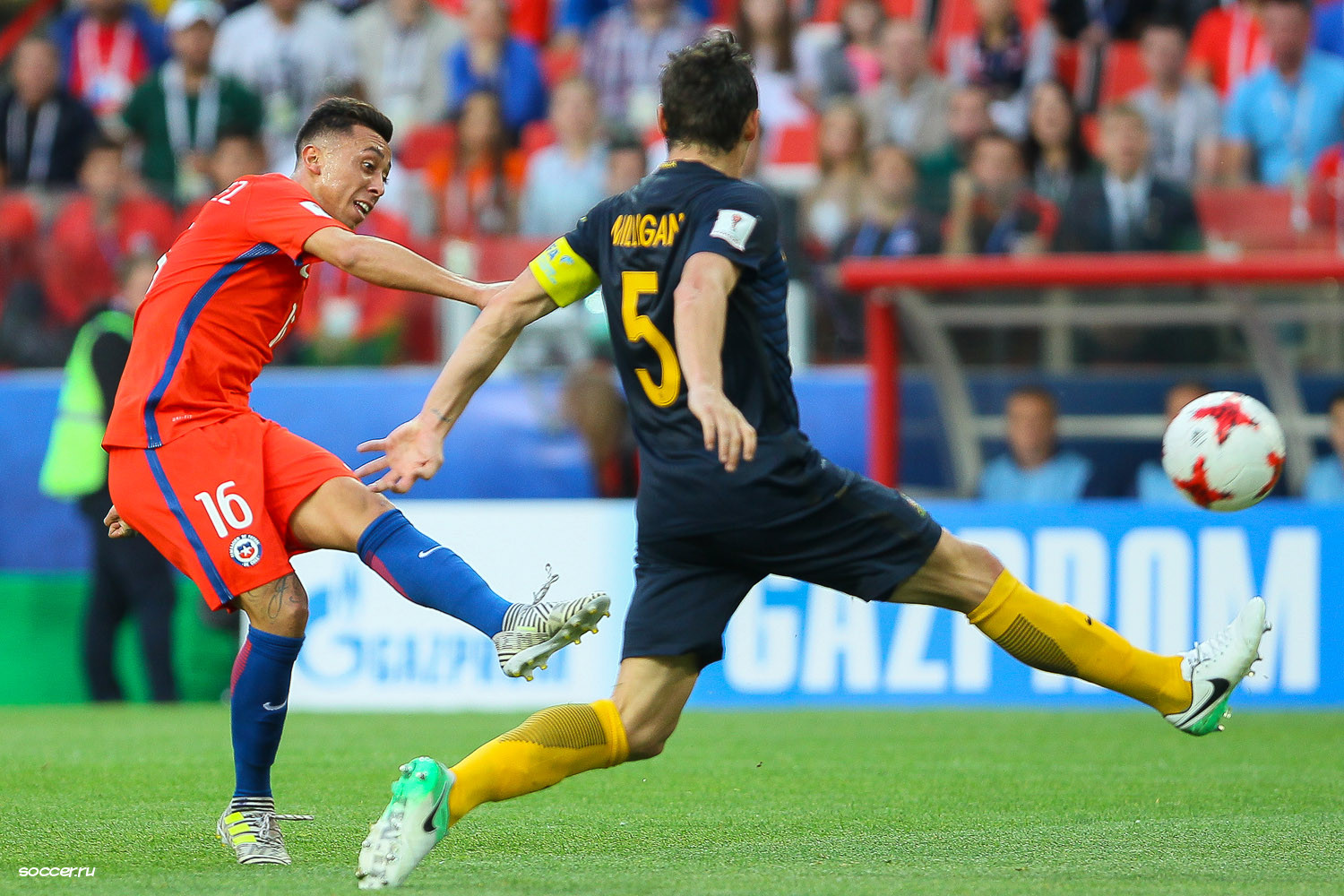 Chile VS. Australia 1 - 1, 25 June 2017